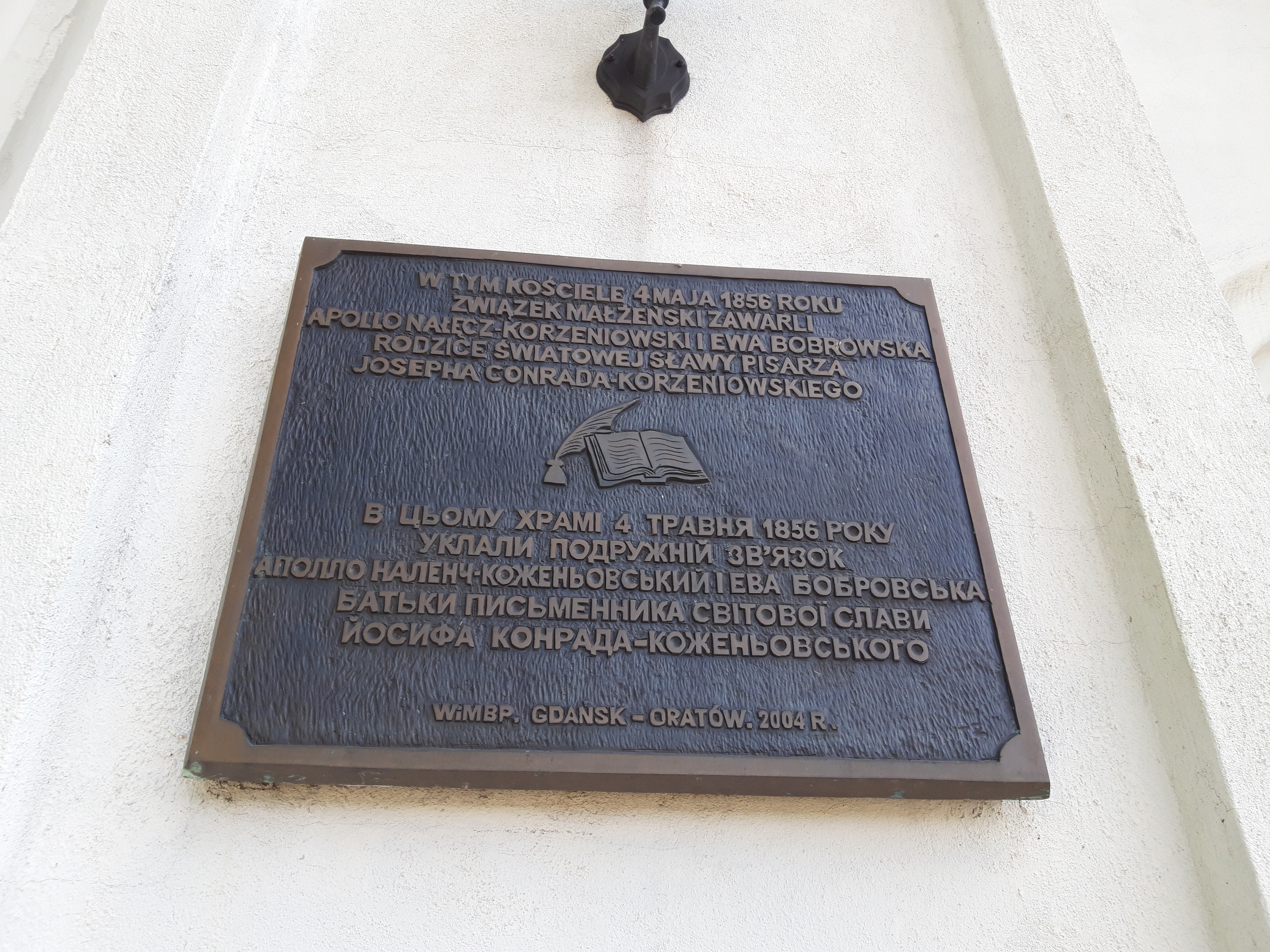 Commemorative plaque in honor of parents of Joseph Conrad